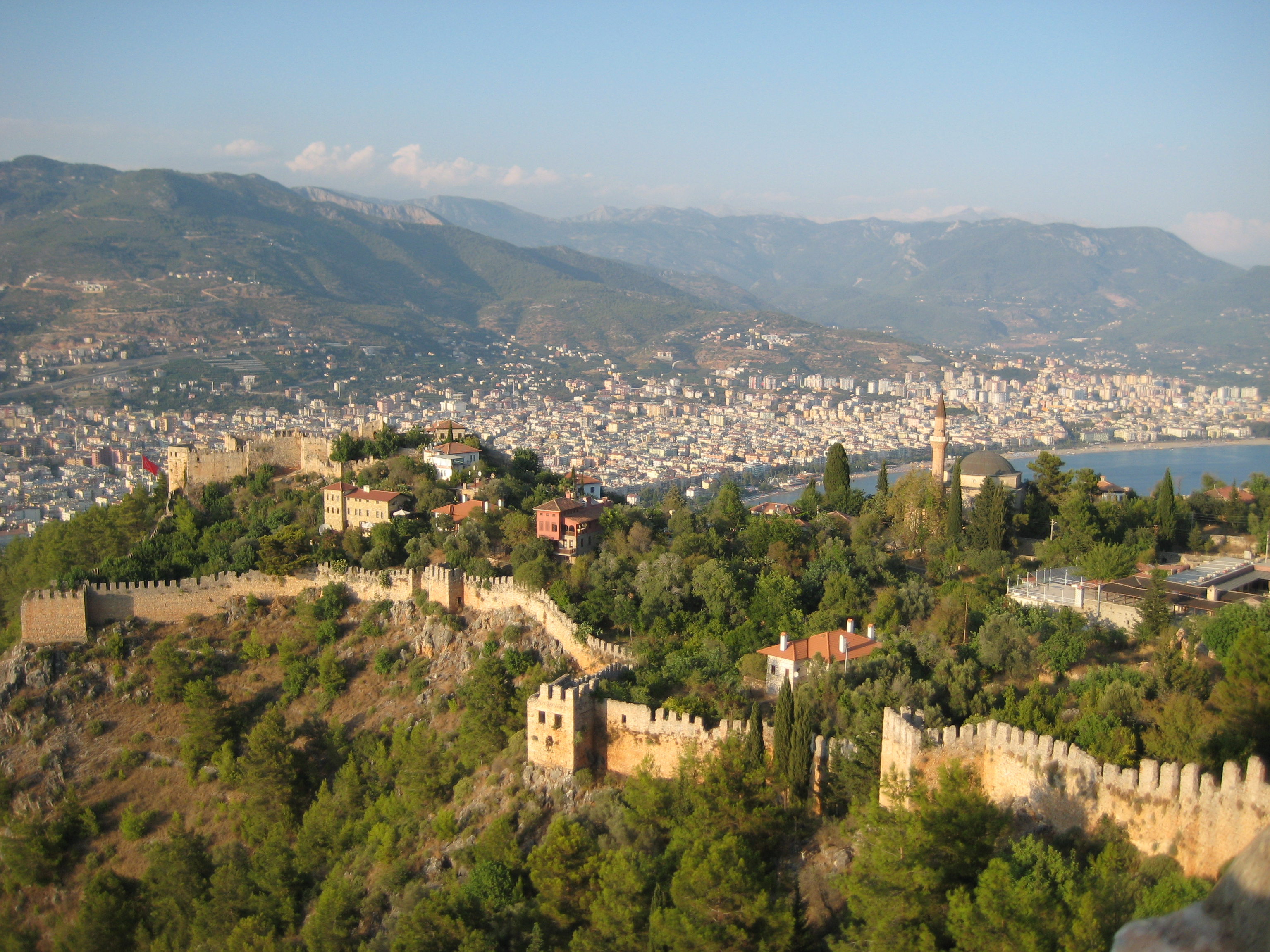 View from Alanya Castle